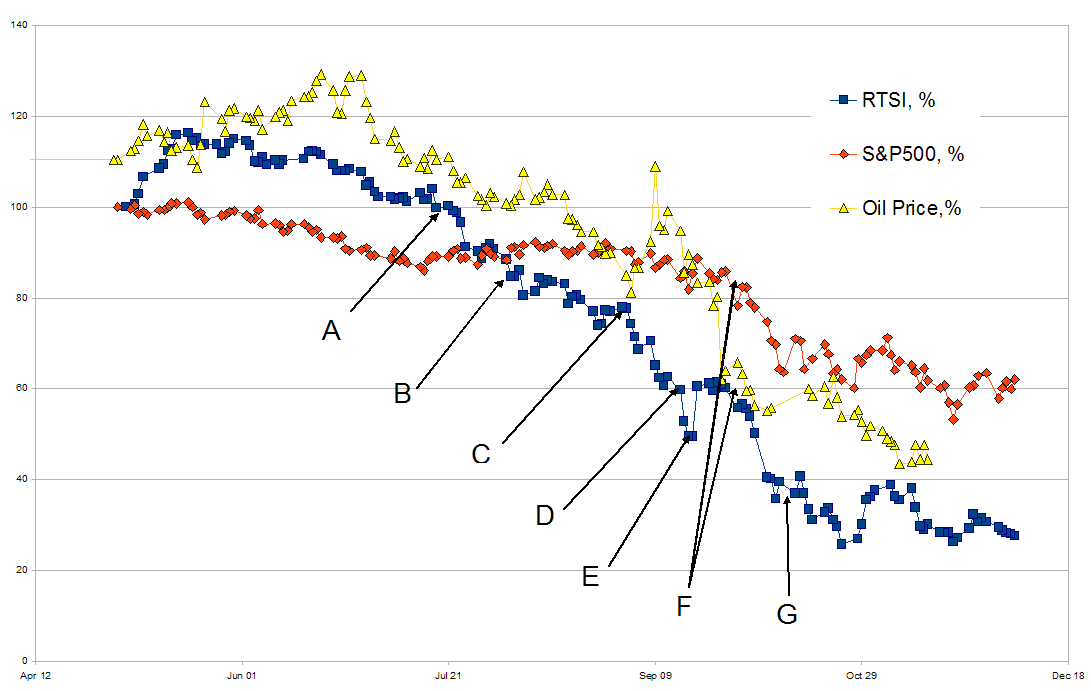 Russian main finansial index RTSI with S&P500 and Oil prices indexes. RTSI is based on S&P 500 is based on Oil Price is Wester Cride Spot Price based on ; A - July 24, Putin's Mechel speech; B - August 7, Start of the South Ossetian War; C - 25 August 2008 Recognition of Independence of South Ossetia and Abkhazia by Russia; D- 17 September, Kudrin's no major problem speech; E- 19 September package of helping the banks measures is adopted; F - Wall Street meltdown; G - President Medvedev announces additional bailout financing